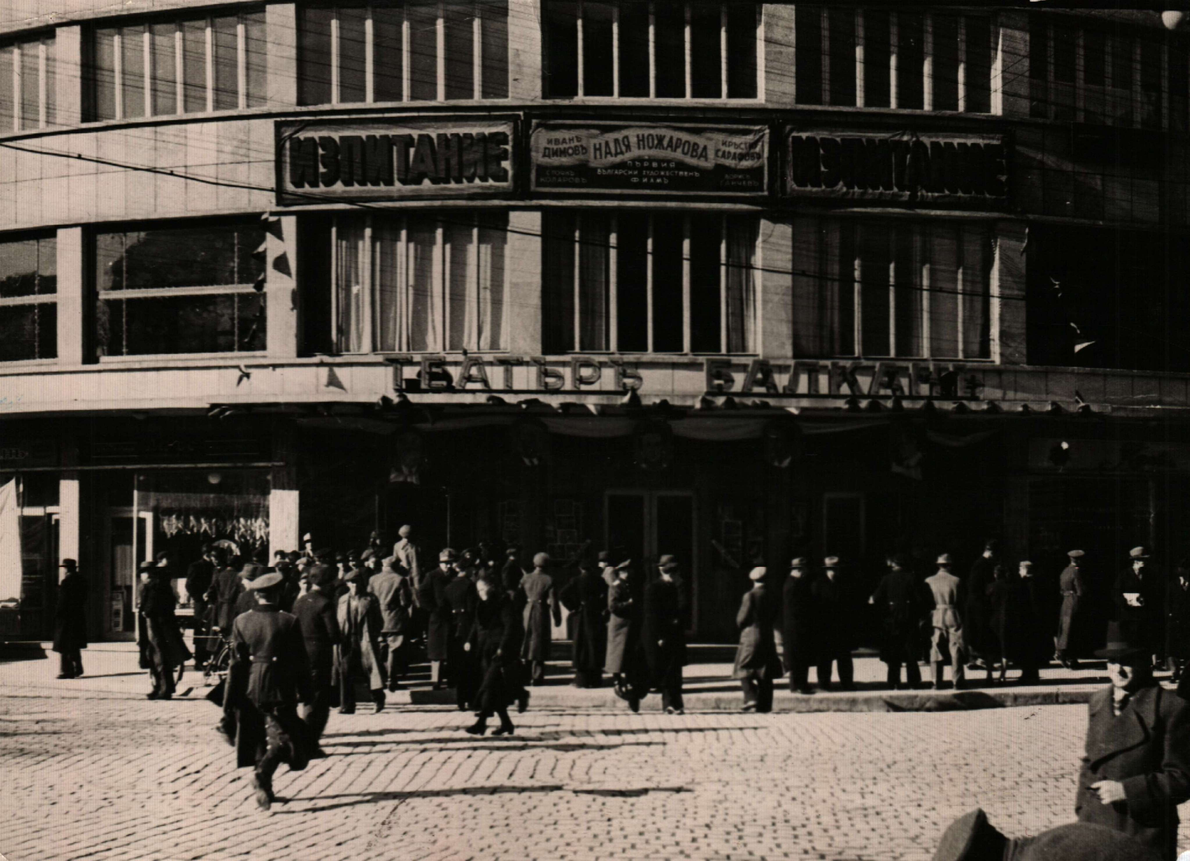 Balkan cinema, Plovdiv,_Bulhgaria